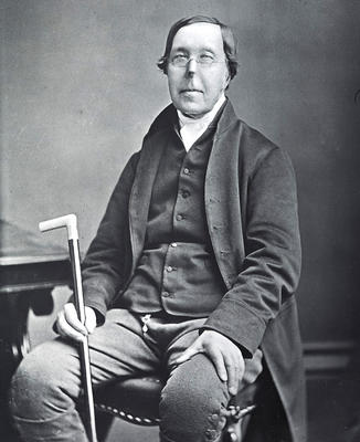 Photograph of William Smeal 1792 -187?